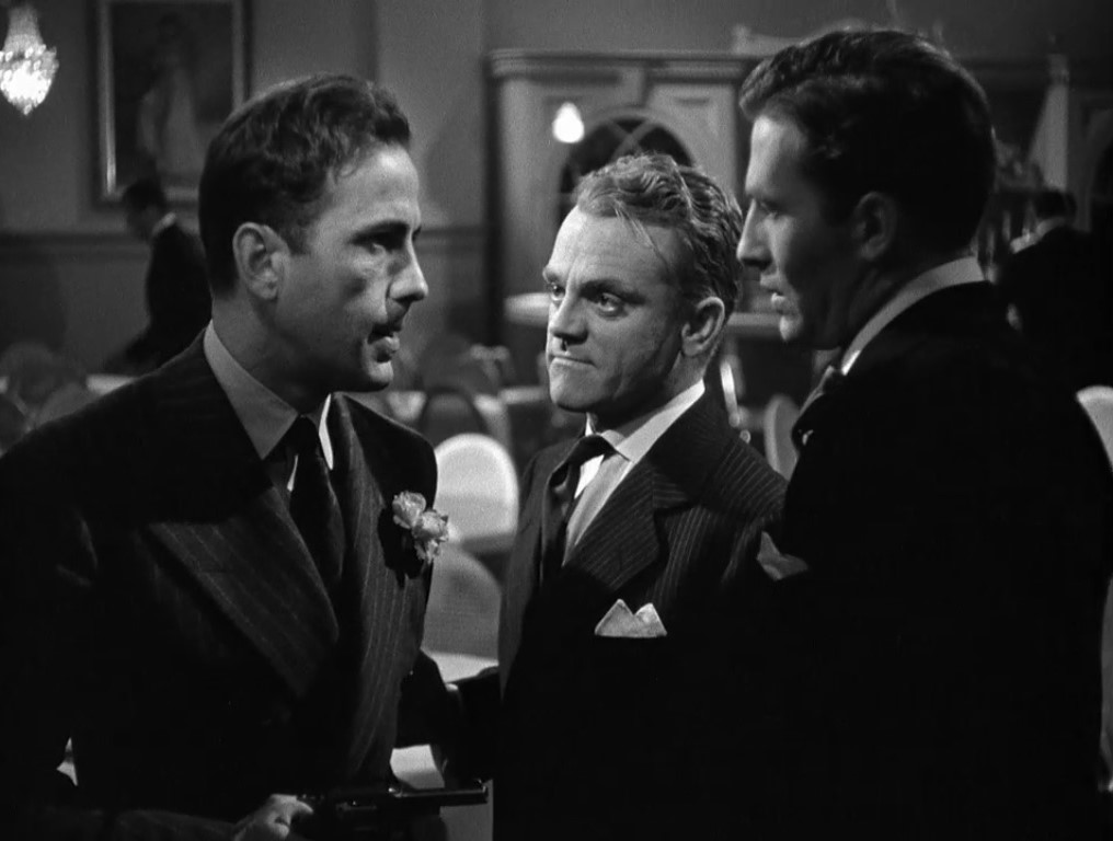 screenshot of Humphrey Bogart, James Cagney and Jeffrey Lynn from the trailer for the film The Roaring Twenties